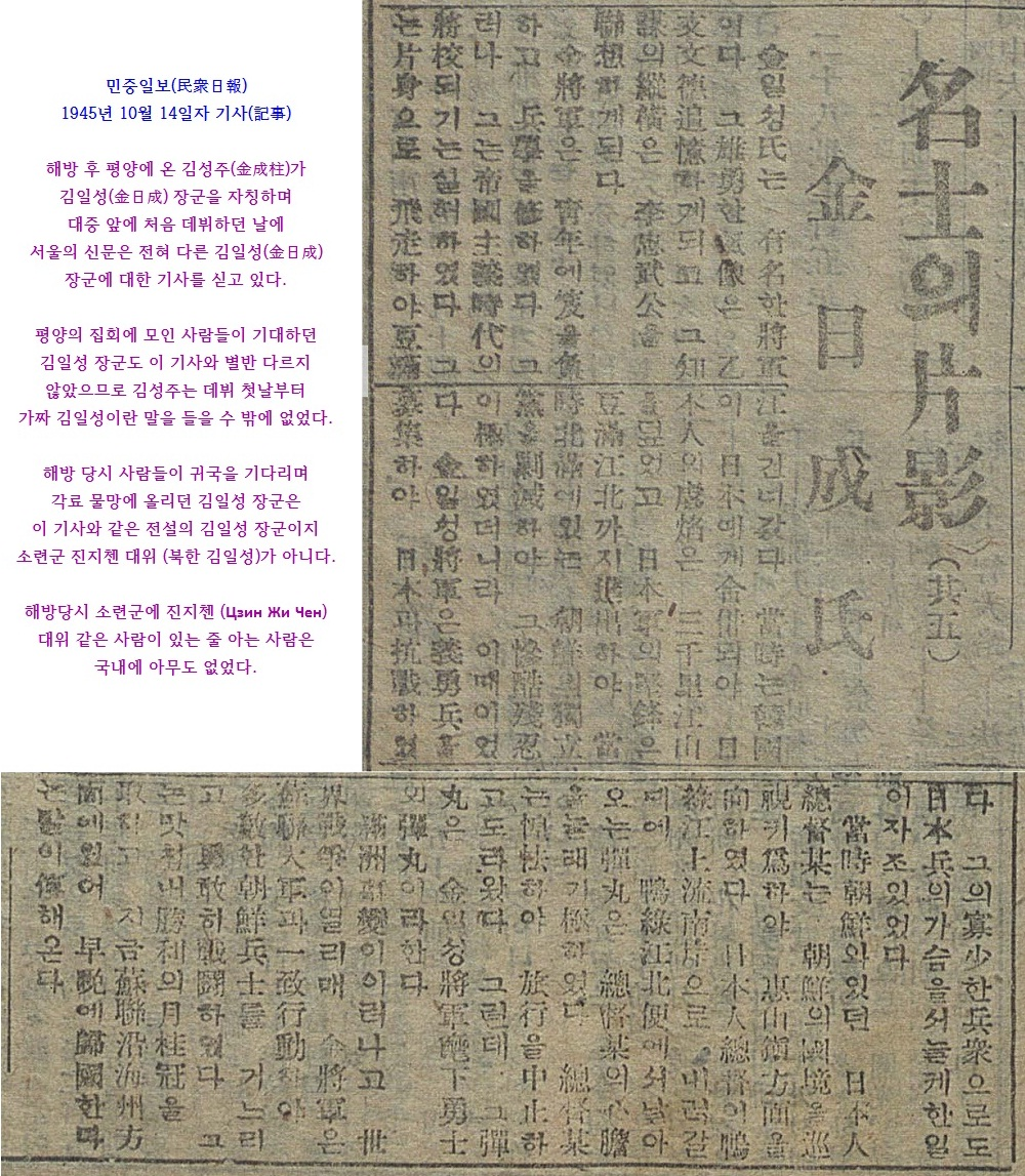 Article on legendary anti-Japanese fighter General Kim Il Sung